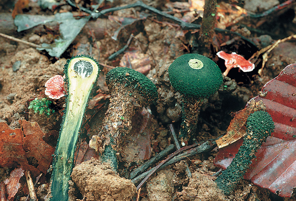 holotype, Danum Valley, Sabah, Malaysia